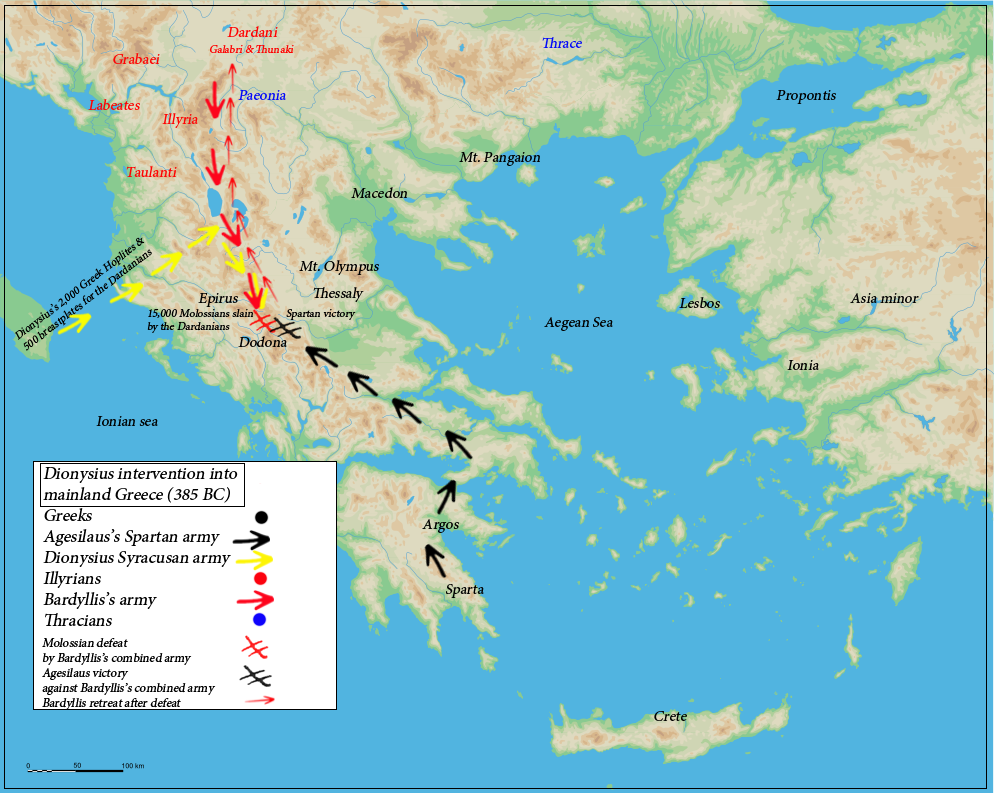 Map of Dionysius of Syracuse's military attempts to place Alcetas in the throne of the Molossians(385 BC). Own work , data from Hammond, N. G. L. A History of Greece to 322 B.C., 1996, p. 479, ISBN 01987309509. Blank map from Image:Map greek sanctuaries-fr.svg.